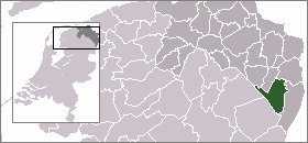 Location map of the Dutch municipality of Stadskanaal, made by Mtcv, use freely